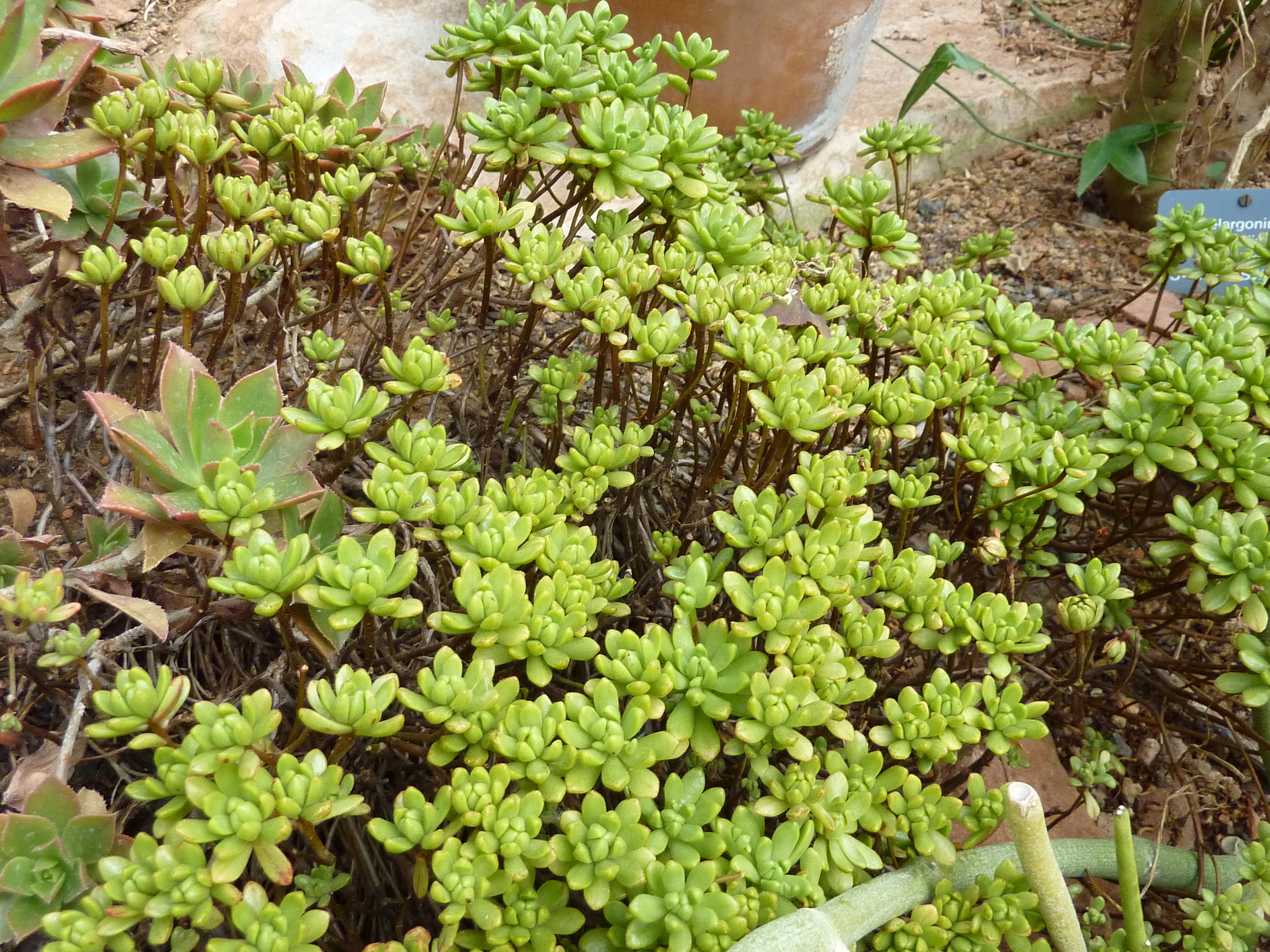 Aeonium sedifolium at the Botanical Garden of the University of Basel.